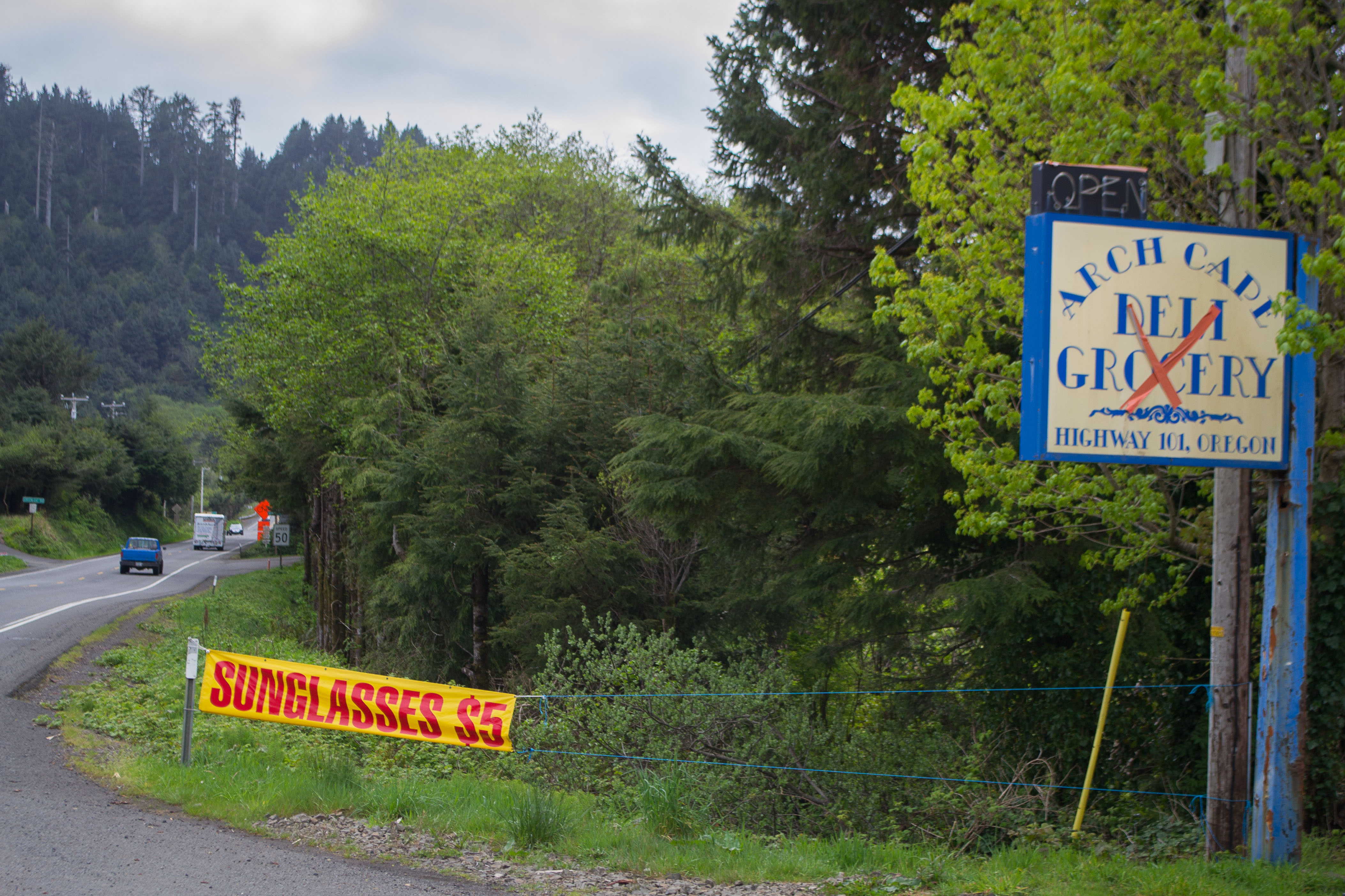 Looking south on the Oregon Coast Highway at Arch Cape